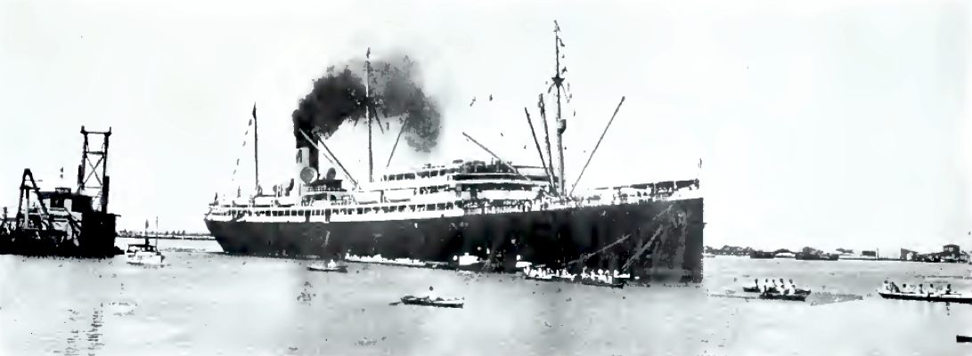 Matson steamer "Maui" in commercial service, probably Honolulu ca. 1920.